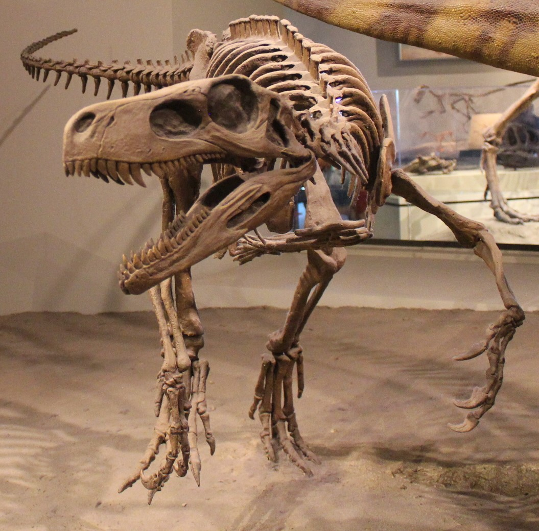 Herrerasaurus skeletal mount on display at the Field Museum of Natural History.